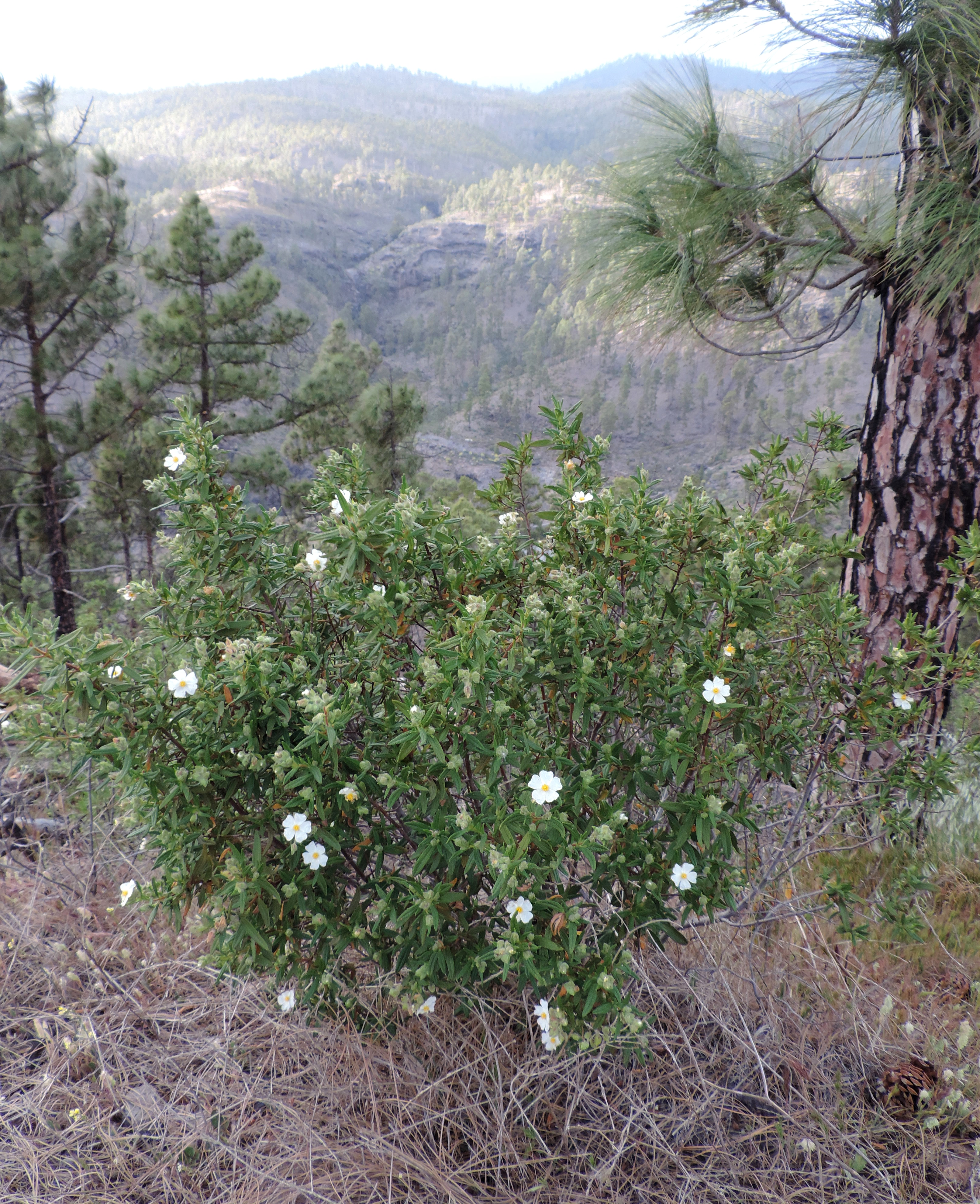 Cistus monspeliensis, near Mulato, Gran Canaria